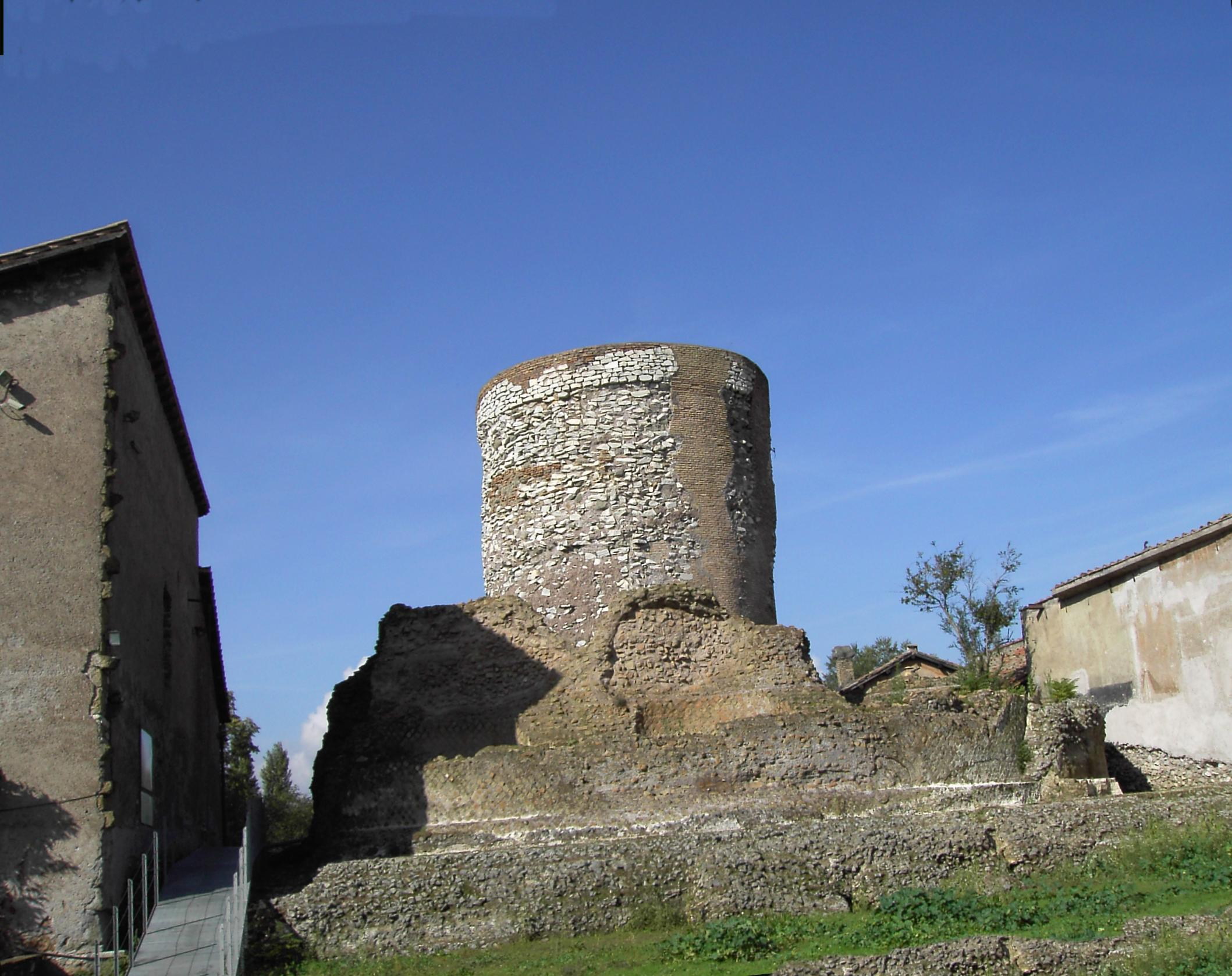 Rome, Via Appia Antica, Tomb of Priscilla by Lalupa